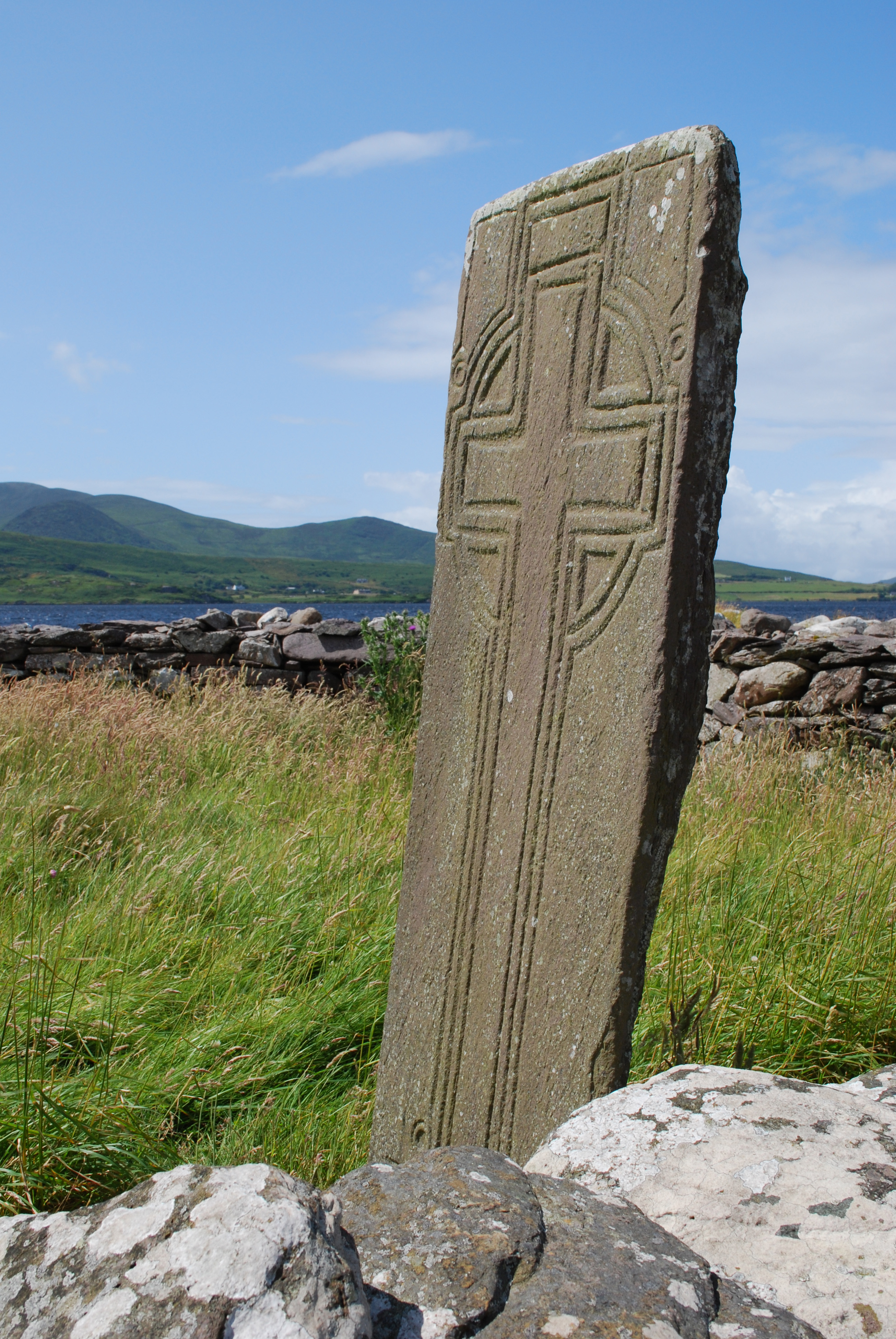 Church Island Lough Currane